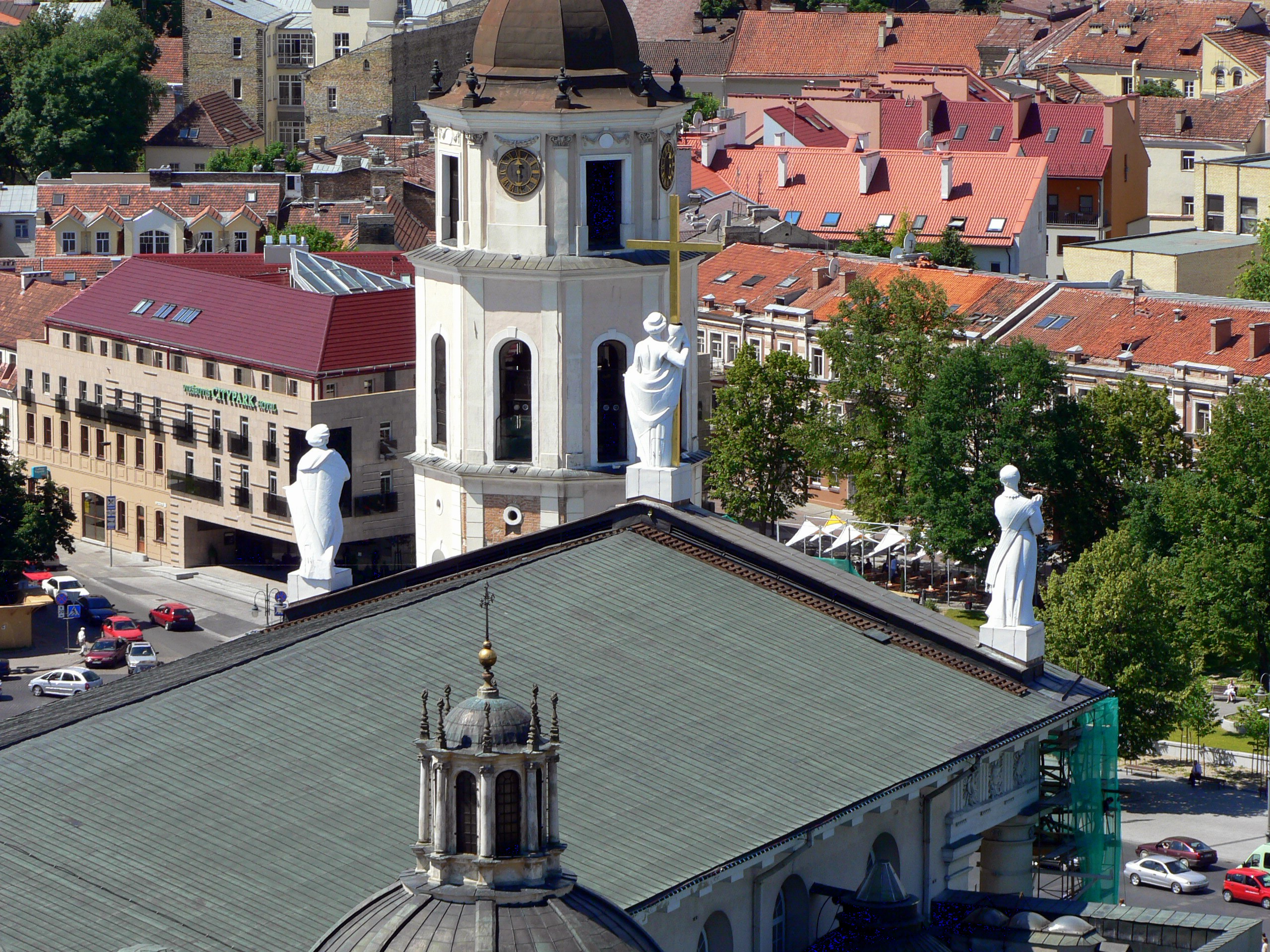 Vilnius, Lithuania